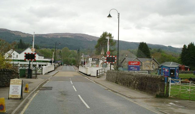 Swing bridge at Fort Augustus, from the A82, going East